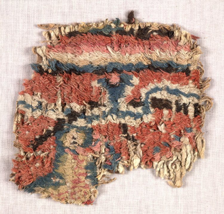 Fragment of textile or carpet from Loulan, Xinjiang province, China, dated to 3rd-4th century AD. The wool fragment was retrieved from a refuse heap in Loulan, Xinjiang, China, by the Hungarian-British archaeologist Sir Marc Aurel Stein in 1906-1908. The object was among those discovered by Stein's second Central Asian Expedition, partially financed by the governments of India and of Great Britain. The finds were divided between the two countries. Image of the fragment courtesy of the British Museum, London.